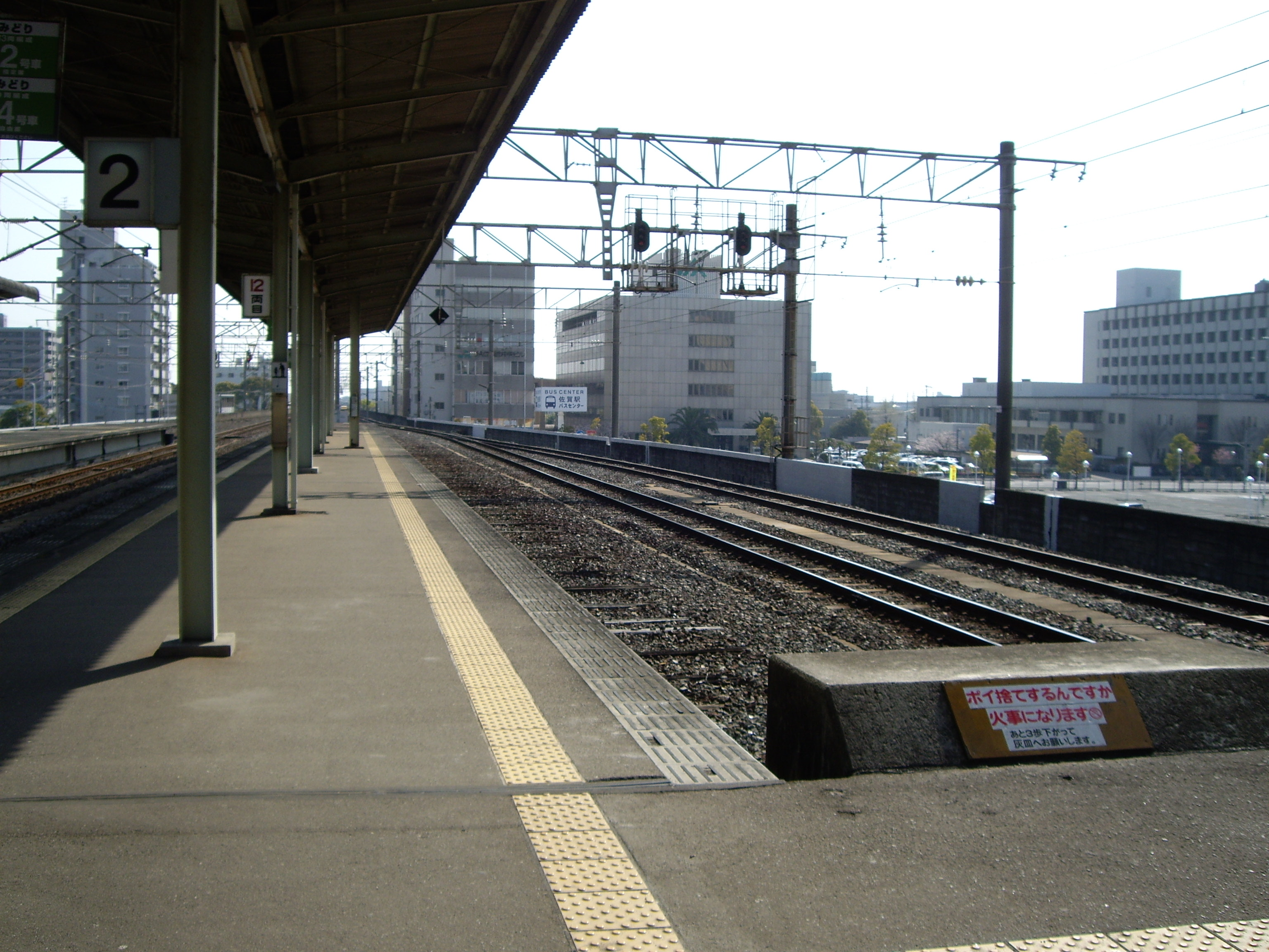 Saga Line Old Platform at Saga Station(佐賀駅)